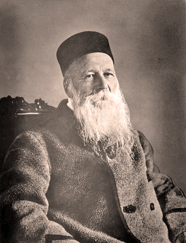 Henry Dunant (1828–1910), Swiss philanthropist and co-founder of the International Committee of the Red Cross; Nobel Peace Prize laureate 1901